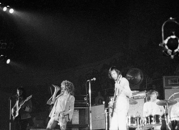 The Who concert in Charlotte, North Carolina, November 1971.